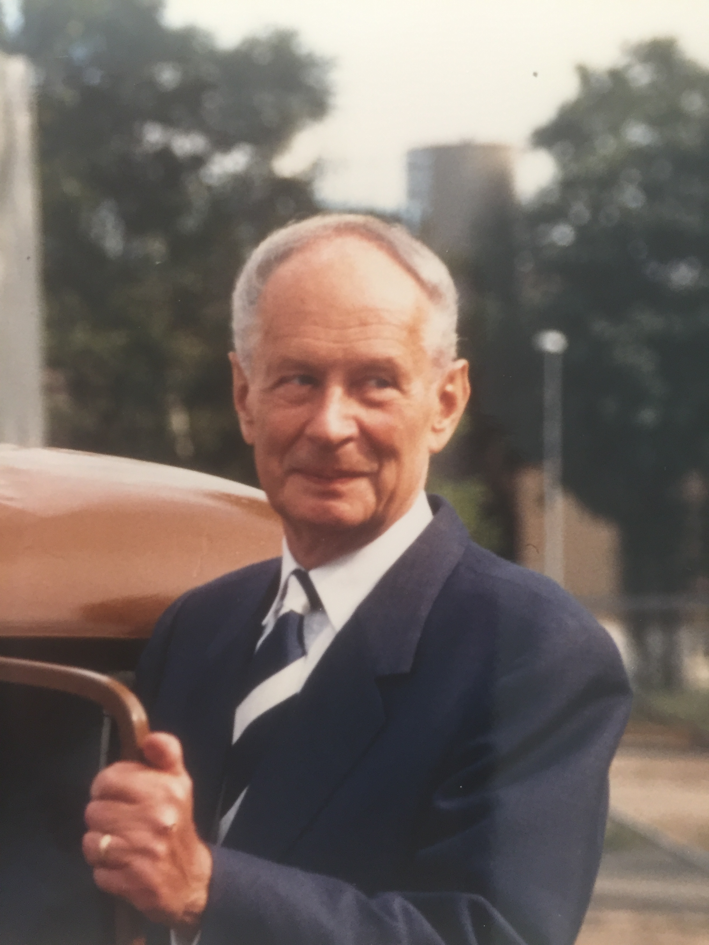 Günter Herlitz, August 16th, 1988